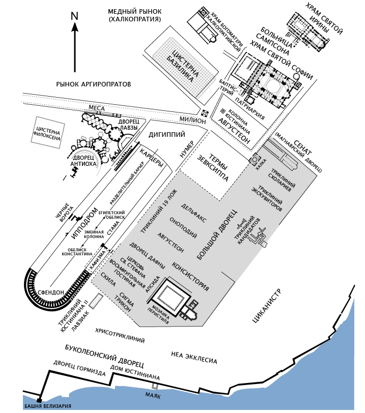 The imperial district of Byzantine Constantinople, with the Great Palace.